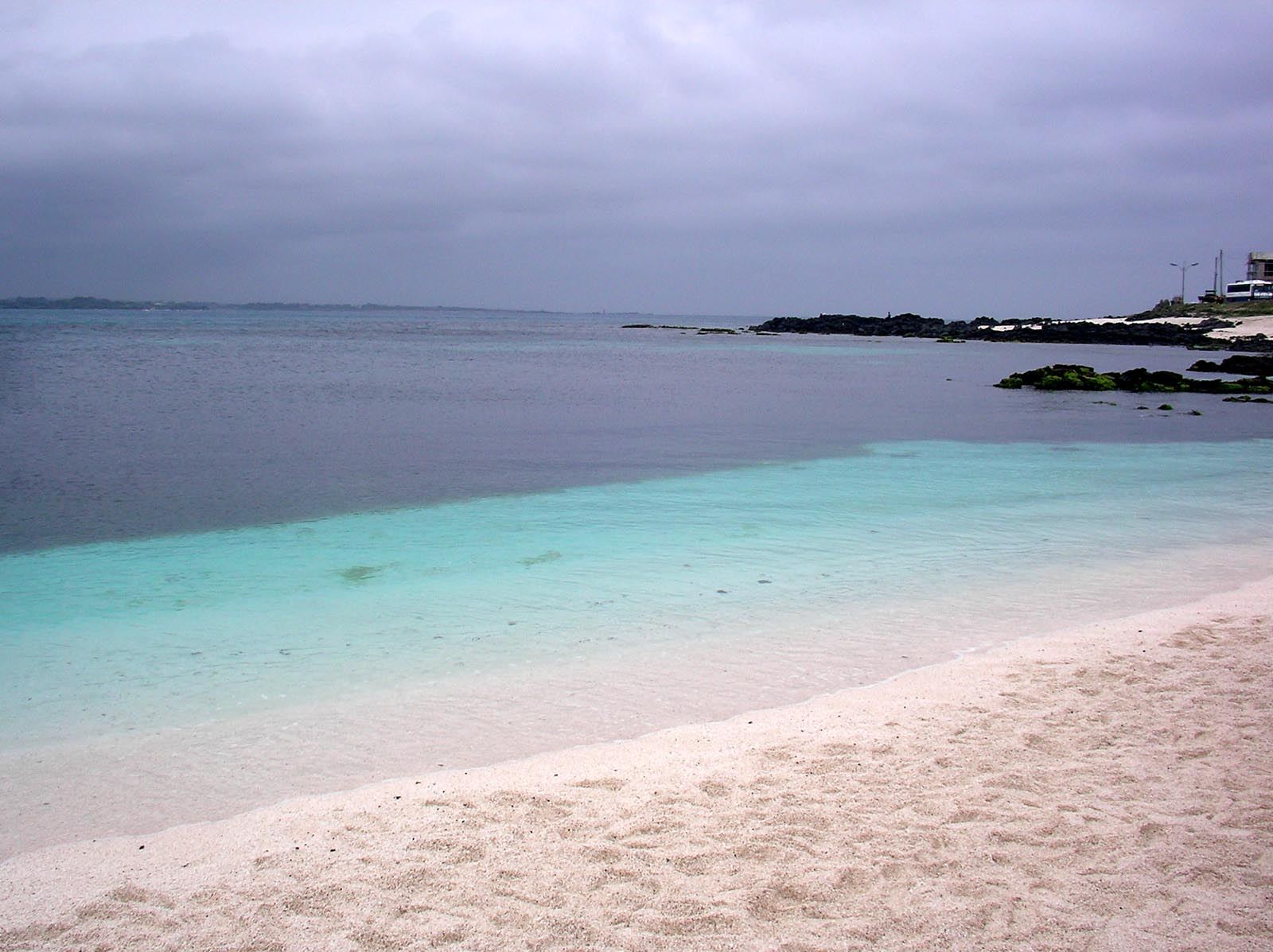 Red algal nodule (rhodolith) beach sediments in U-do, South Korea Natural Monument No.438 (우도 홍조단괴해빈)